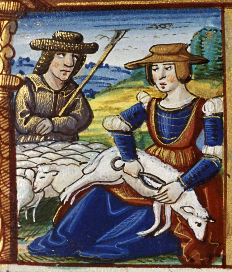 A woman shearing a sheep.